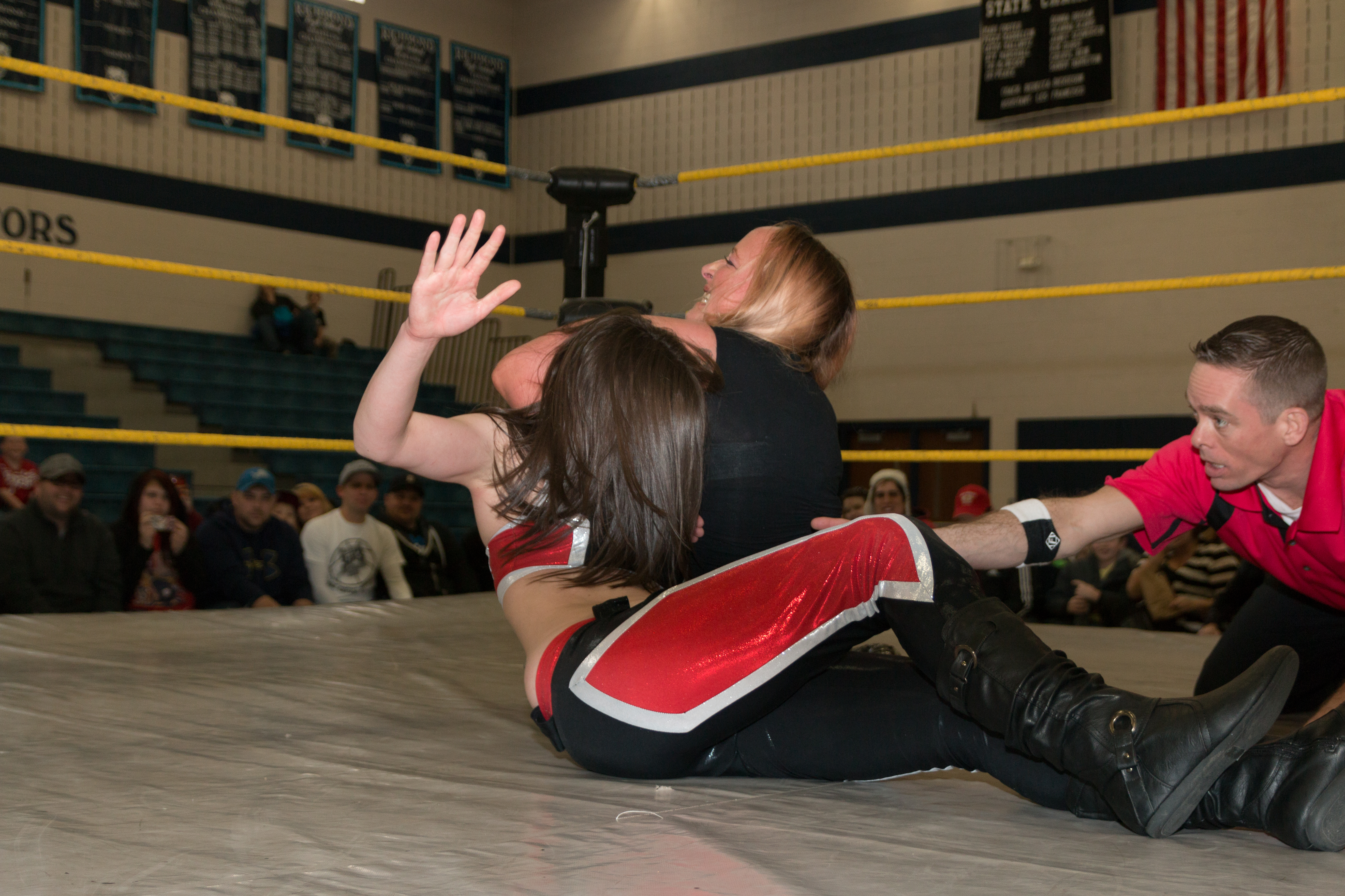 Wrestler Randi West (in solid black top) has Skyler Rose (in red and black pants) in a guillotine choke hold